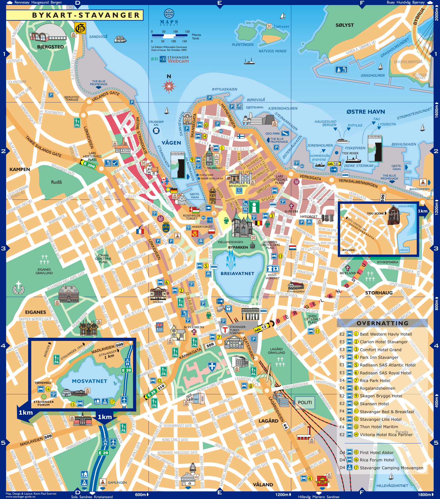 Stavanger bykart - kart over Stavanger - Stavanger kart (City map with transport and city facilities)